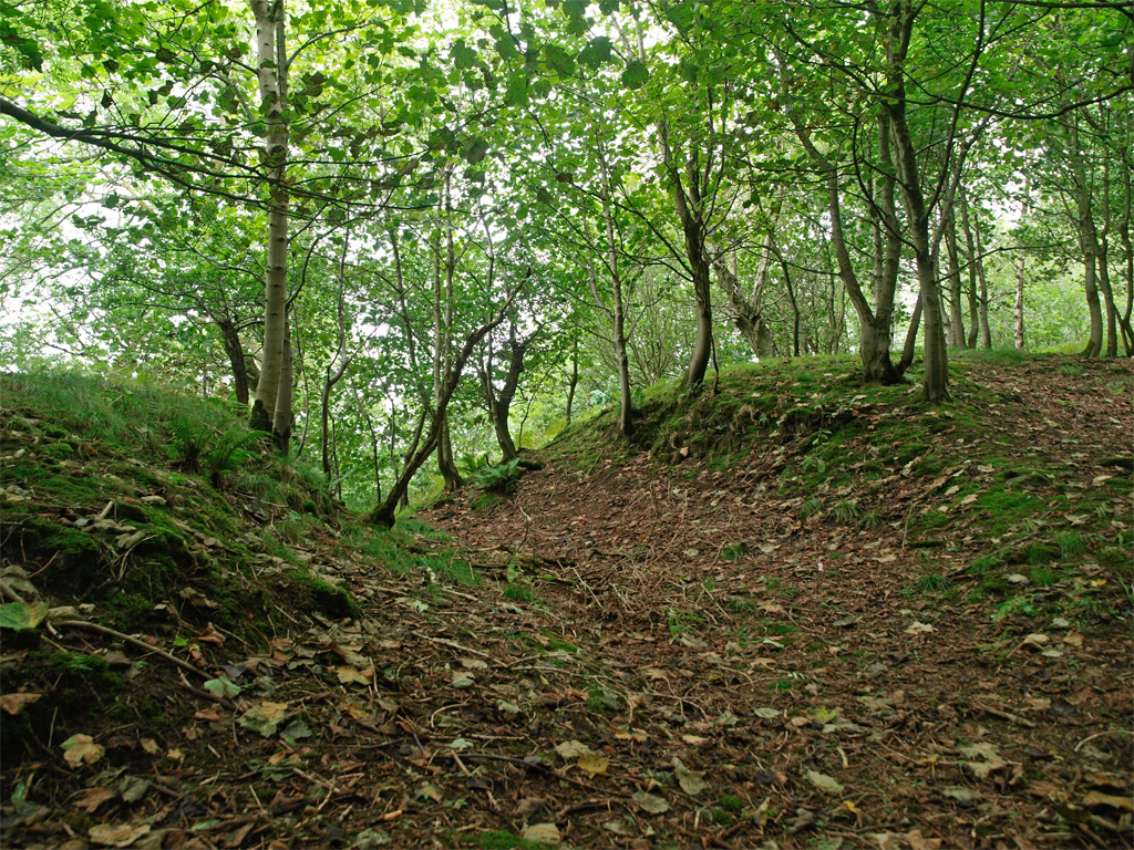 Gillies Hill, Cambusbarron, Scotland